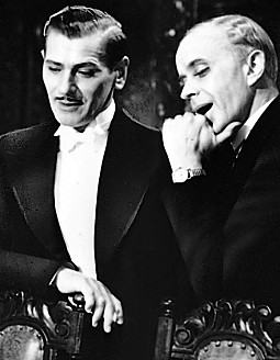 Edvin Adolphson, one of great Swedish character actors. Anders Henrikson to the right. Picture from the movie Ett brott (1940).